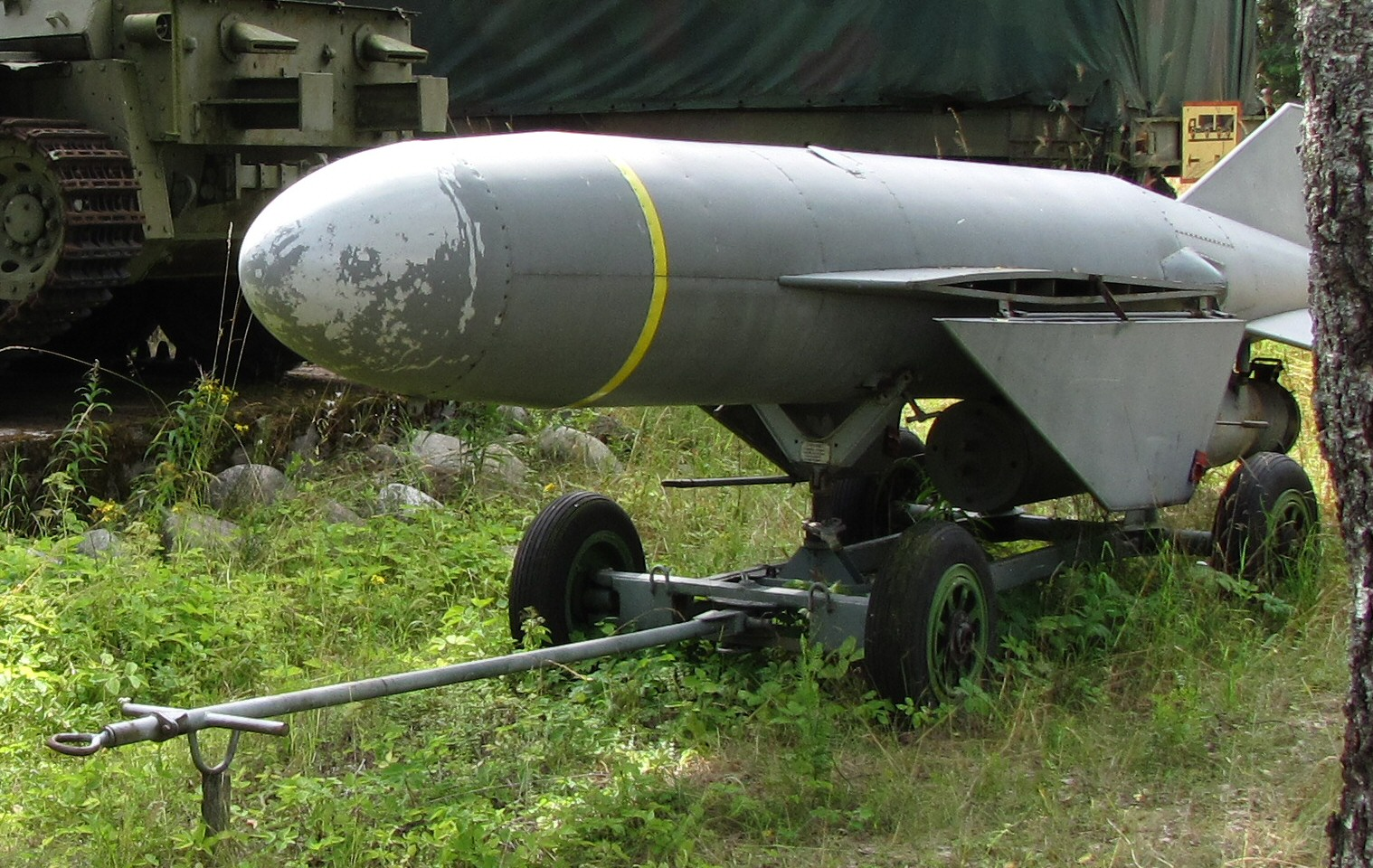 P-15U anti-ship missile in Kuivasaari.